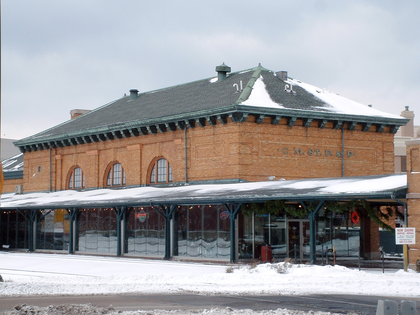 Photograph of the former Milwaukee Road rail depot in Madison. Built in 1903, the depot is listed in the National Register of Historic Places. It has since been converted into office and retail space, but the "C. M. ST. P. & P." insignia remains on the exterior of the building.